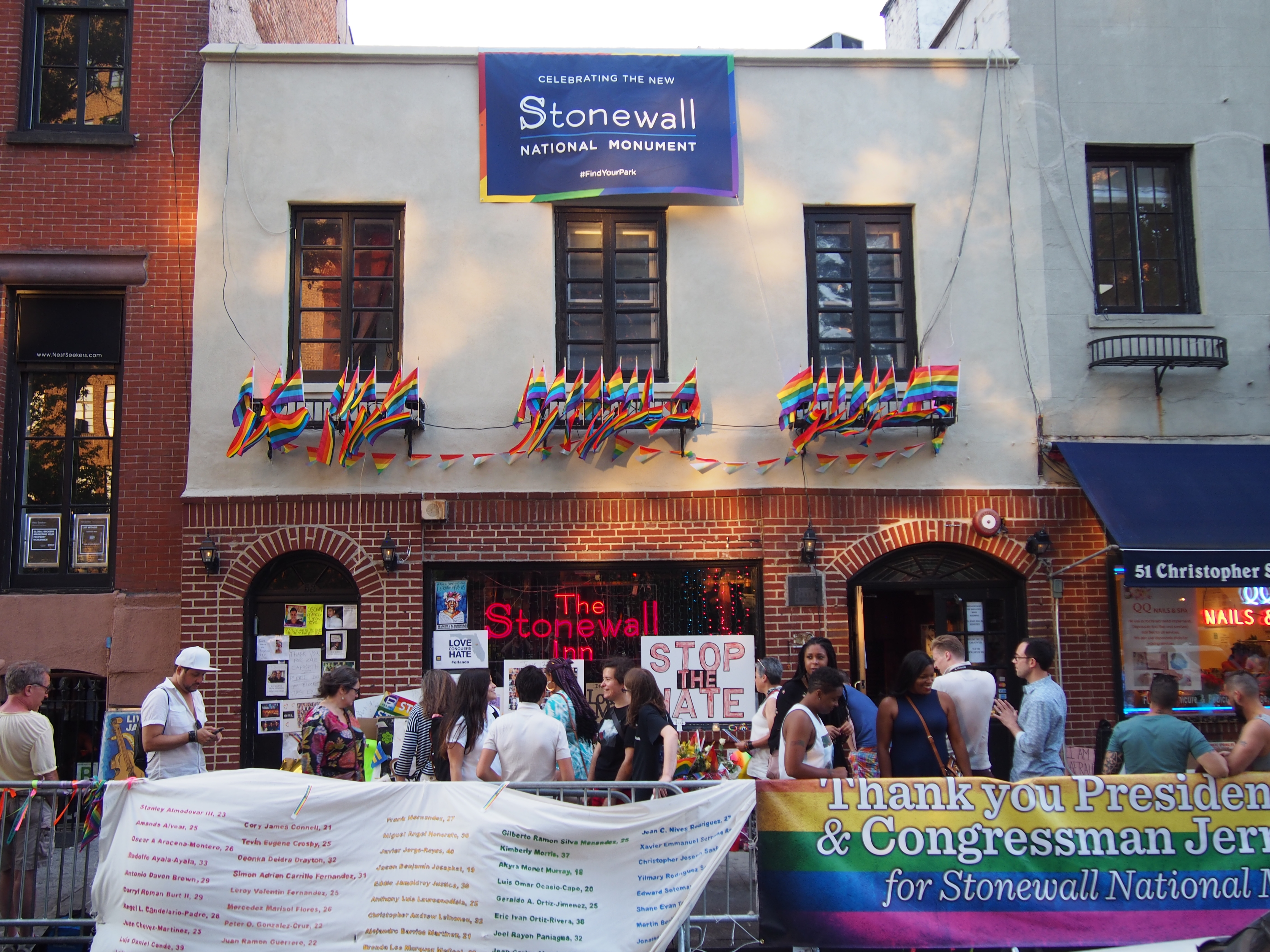 Outside of the official business district, the Stonewall Inn, a gay bar on Christopher Street in Manhattan's Greenwich Village. A 1969 police raid here led to the Stonewall riots, one of the most important events in the history of LGBT rights (and the history of the United States). This picture was taken on pride weekend in 2016, the day after President Obama announced the Stonewall National Monument, and less than two weeks after the Pulse nightclub shooting in Orlando.